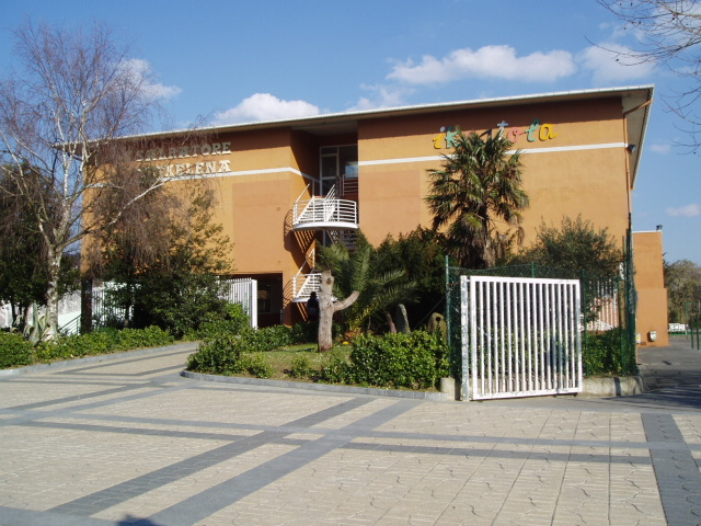 Salbatore Mitxelena "ikastola" (basque school) of Zarautz (Gipuzkoa).